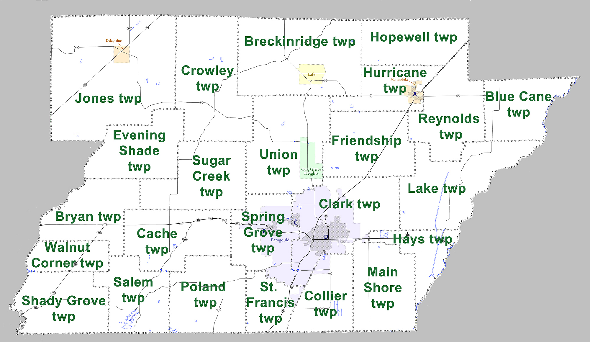 Large map showing townships in Greene County, Arkansas. Modified from US census map (for 2010 census) for Greene County, Arkansas